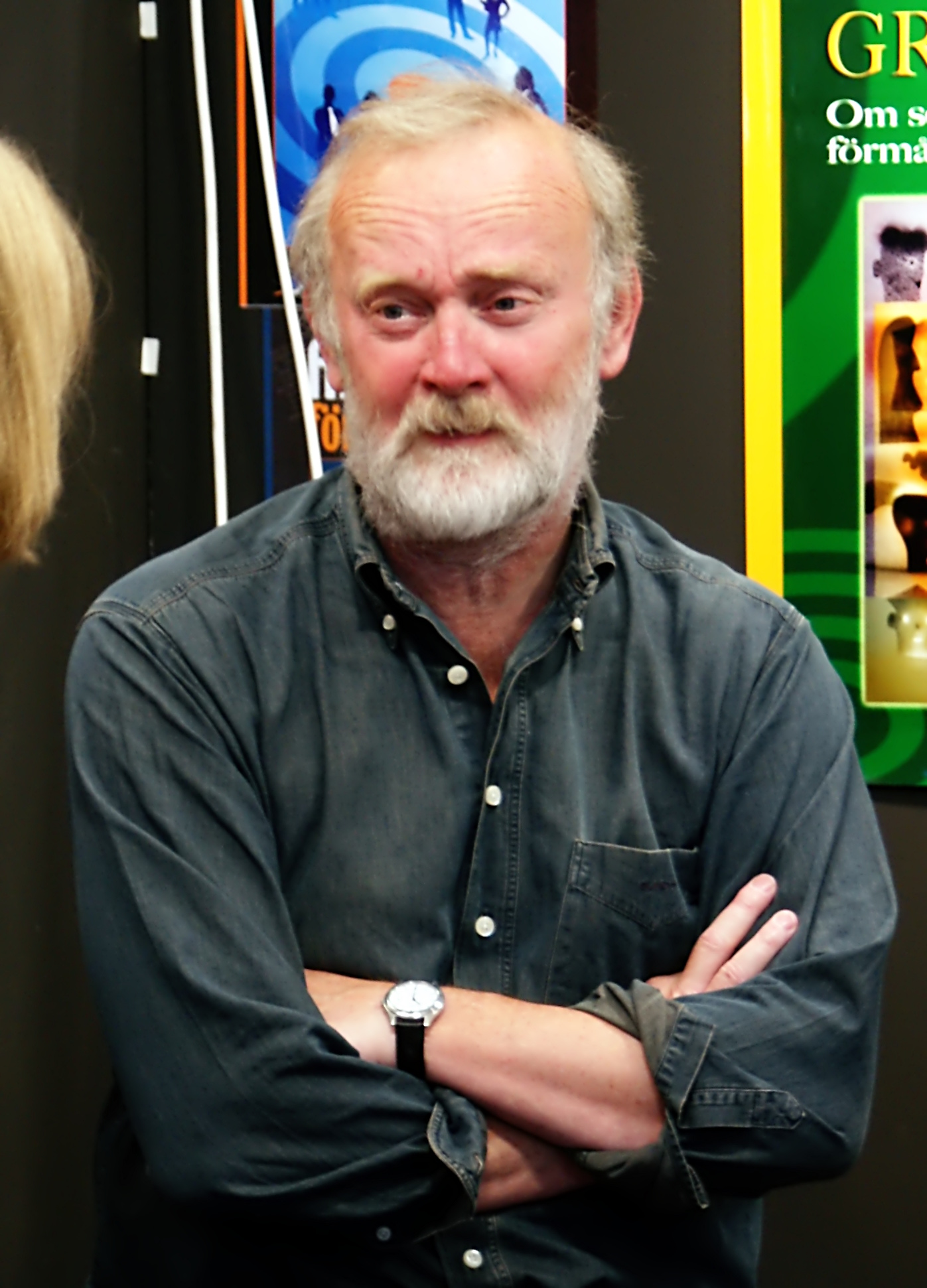 Gillis Herlitz, Swedish writer and anthropologist.